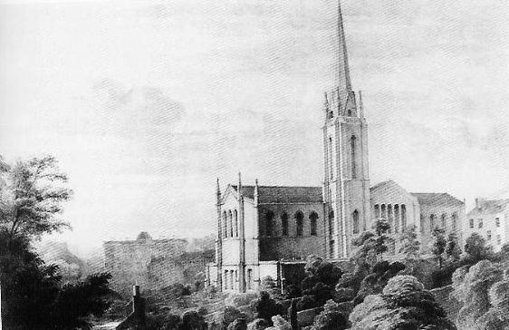 Etching by James Giles ( 1801 – 1870) of Triple Kirks, Aberdeen, Scotland